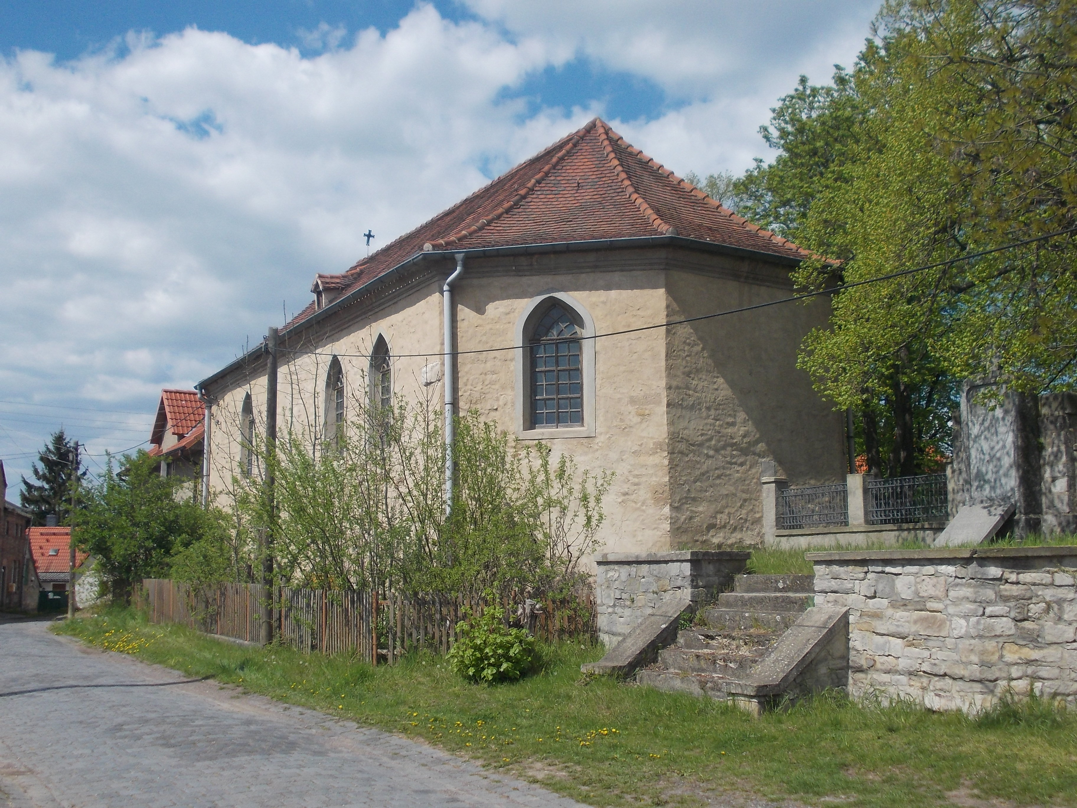 Holy Cross Church in Wormsleben (Seegebiet Mansfelder Land, Mansfeld-Südharz district, Saxony-Anhalt)